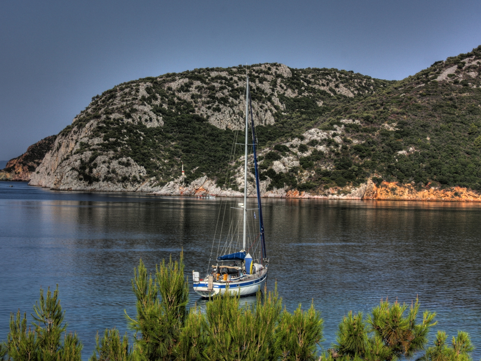 Sailboat at Porto Koufo, Sithonia, Halkidiki, Greece.